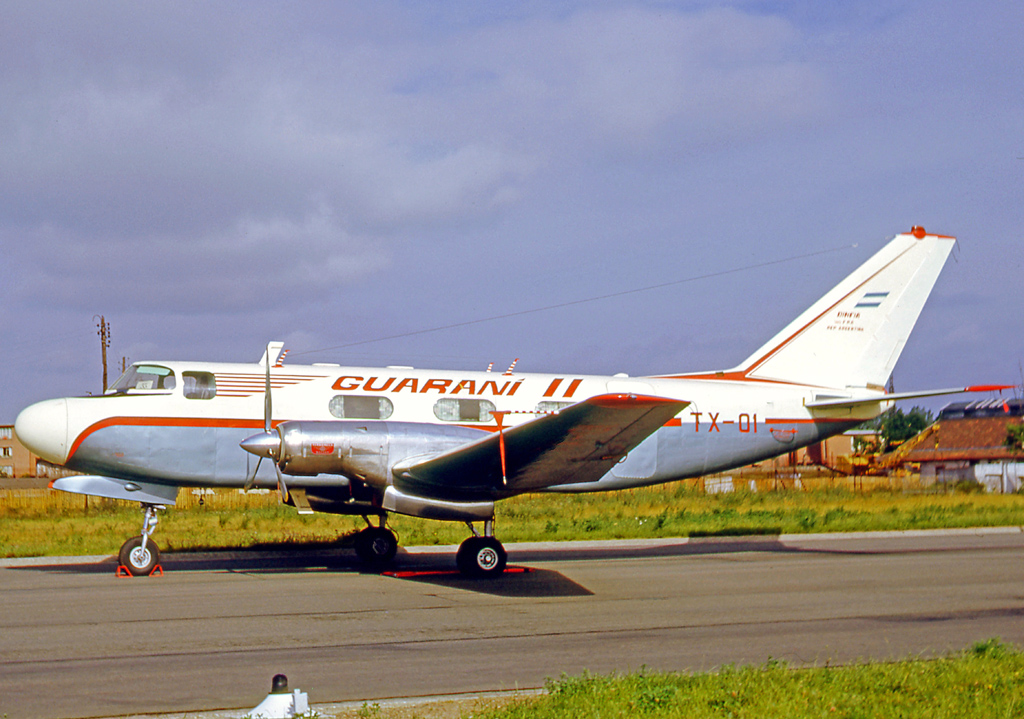 FMA/Dinfia IA-50 Guarani II prototype at Paris Le Bourget in 1965